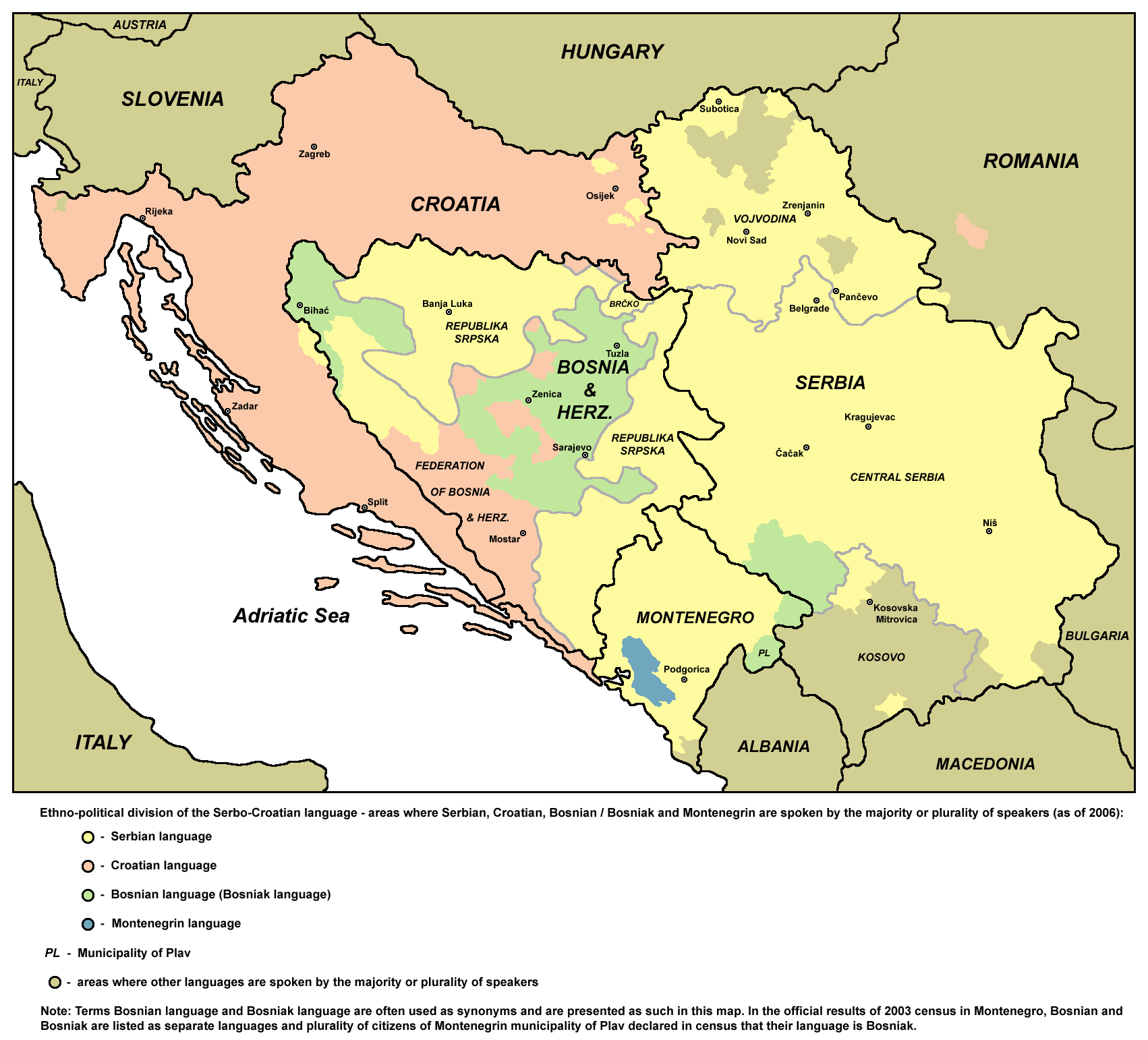 Municipalities where the several national varieties of Serbo-Croatian (Serbian, Croatian, Bosnian/Bosniak, and Montenegrin) were declared the language of a plurality of respondents. (As of 2006) References Published references: Popis stanovništva, domaćinstava i stanova u 2002. - Stanovništvo - knjiga 3 - Veroispovest, maternji jezik i nacionalna ili etnička pripadnost prema starosti i polu (podaci po opštinama), Republika Srbija - Republički zavod za statistiku, Beograd, maj 2003. Popis stanovništva, domaćinstava i stanova u 2003. - Stanovništvo - knjiga 3 - vjeroispovest, maternji jezik i nacionalna ili etnička pripadnost prema starosti i polu (podaci po opštinama), Republika Crna Gora - Zavod za statistiku, Podgorica, novembar 2004. Internet references: - Crna Gora - Popis stanovništva, domaćinstava i stanova u 2003. - Stanovništvo - knjiga 3 - vjeroispovest, maternji jezik i nacionalna ili etnička pripadnost prema starosti i polu (podaci po opštinama). - Hrvatska - Popis stanovništva 2001. - STANOVNIŠTVO PREMA MATERINSKOM JEZIKU, PO GRADOVIMA/OPĆINAMA. - 2002 census in Romania. - District Brčko population.